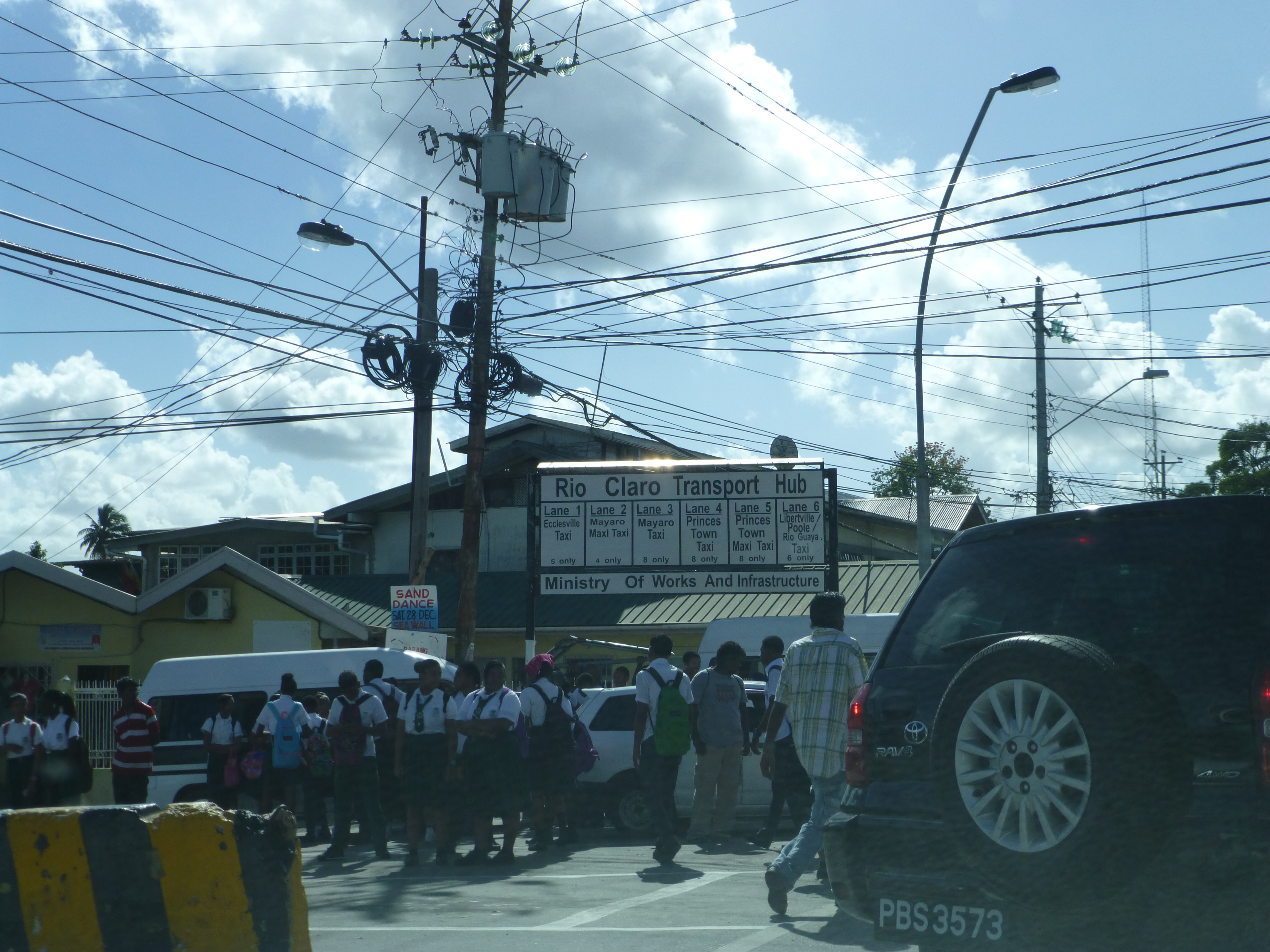 Maxi station, Rio Claro, Trinidad.